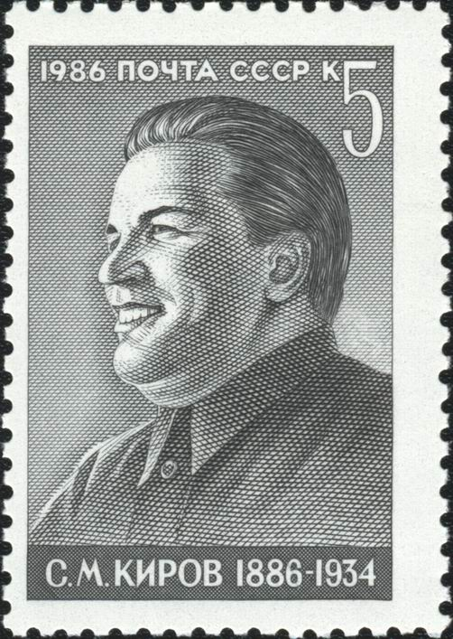 А Soviet Union stamp, politician of the USSR Birth Centenary of S.M.Kirov. Date of issue: 27th March 1986. Designer: A. Kernosov Michel catalogue number: 5590. 5 K. black. Portrait of Communist Party Secretary S.M. Kirov (1886-1934).